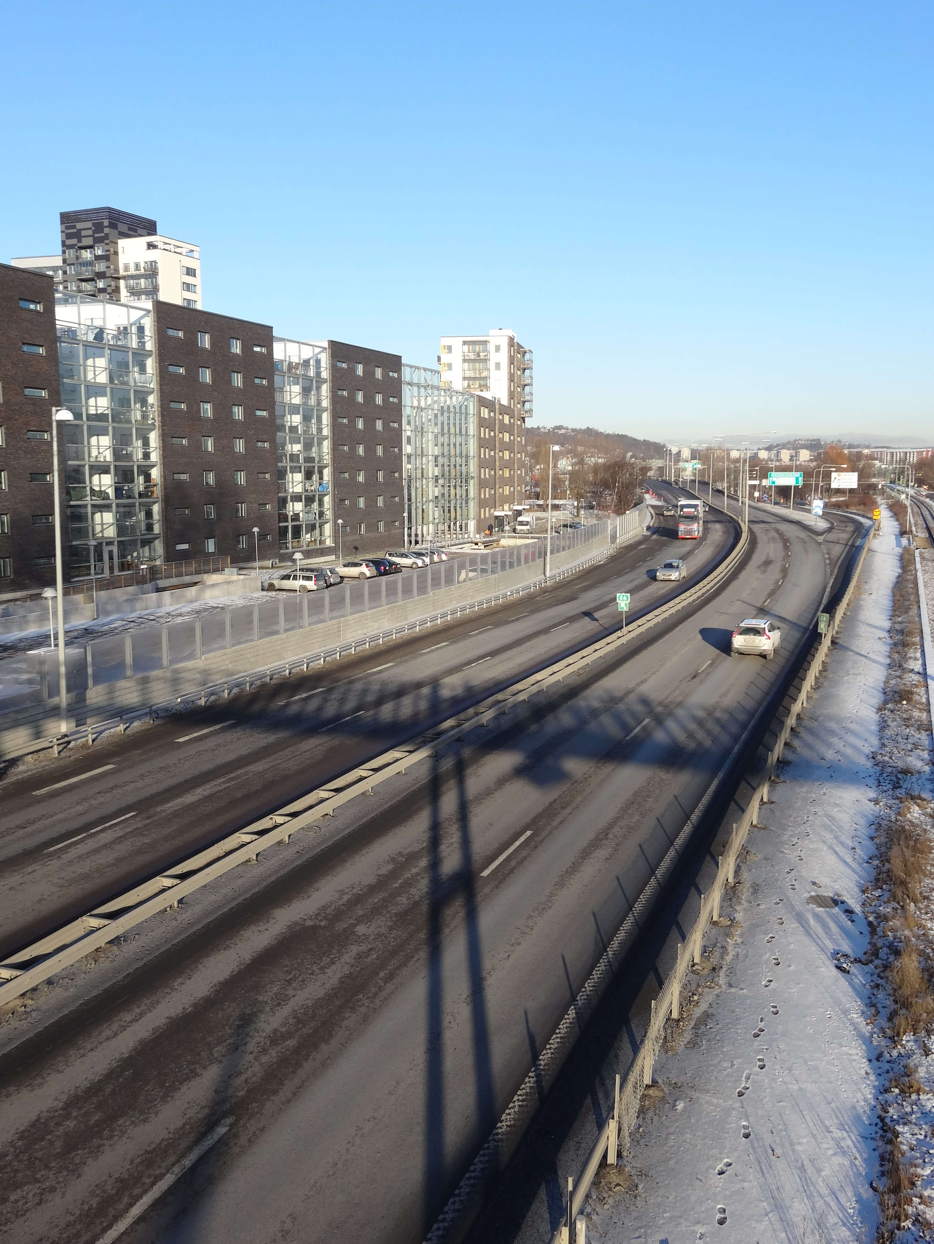 Lundbyleden, a road in Gothenburg, Sweden.